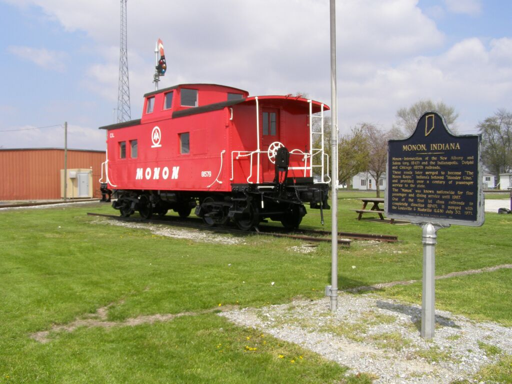 Restored Monon Caboose in town park in Monon, Indiana